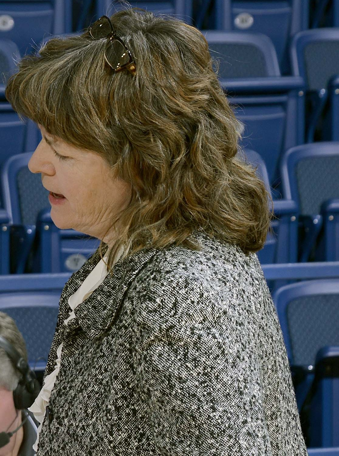 University of Nevada, Reno women's basketball head coach Jane Albright at Clune Arena before Nevada's game against Air Force on Feb. 10, 2016.